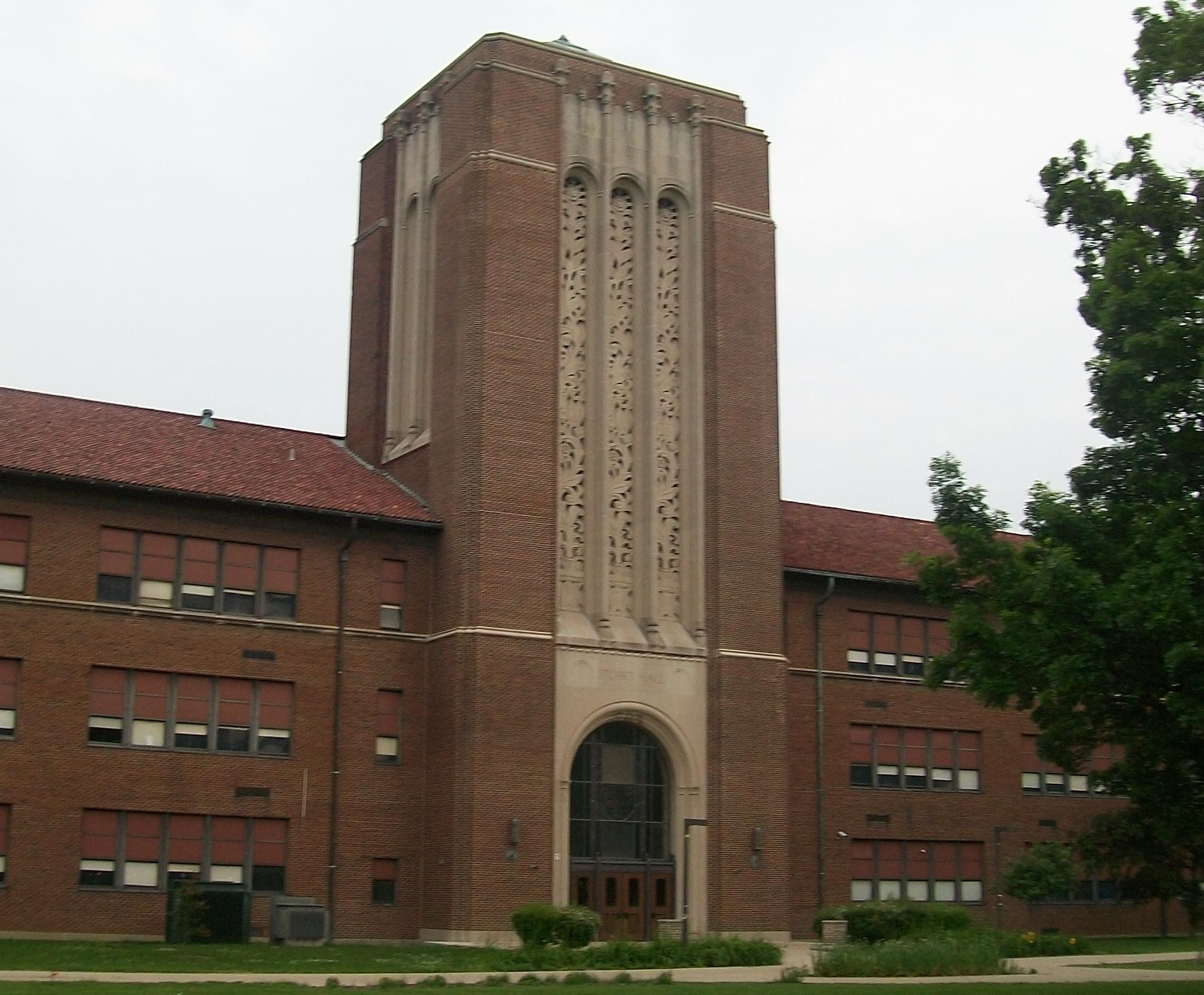 Stuart Hall is one of the main buildings on the campus of Arsenal Technical High School. On the front of the building is a large bell tower which includes an atrium on the ground floor. This is a picture of that bell tower.